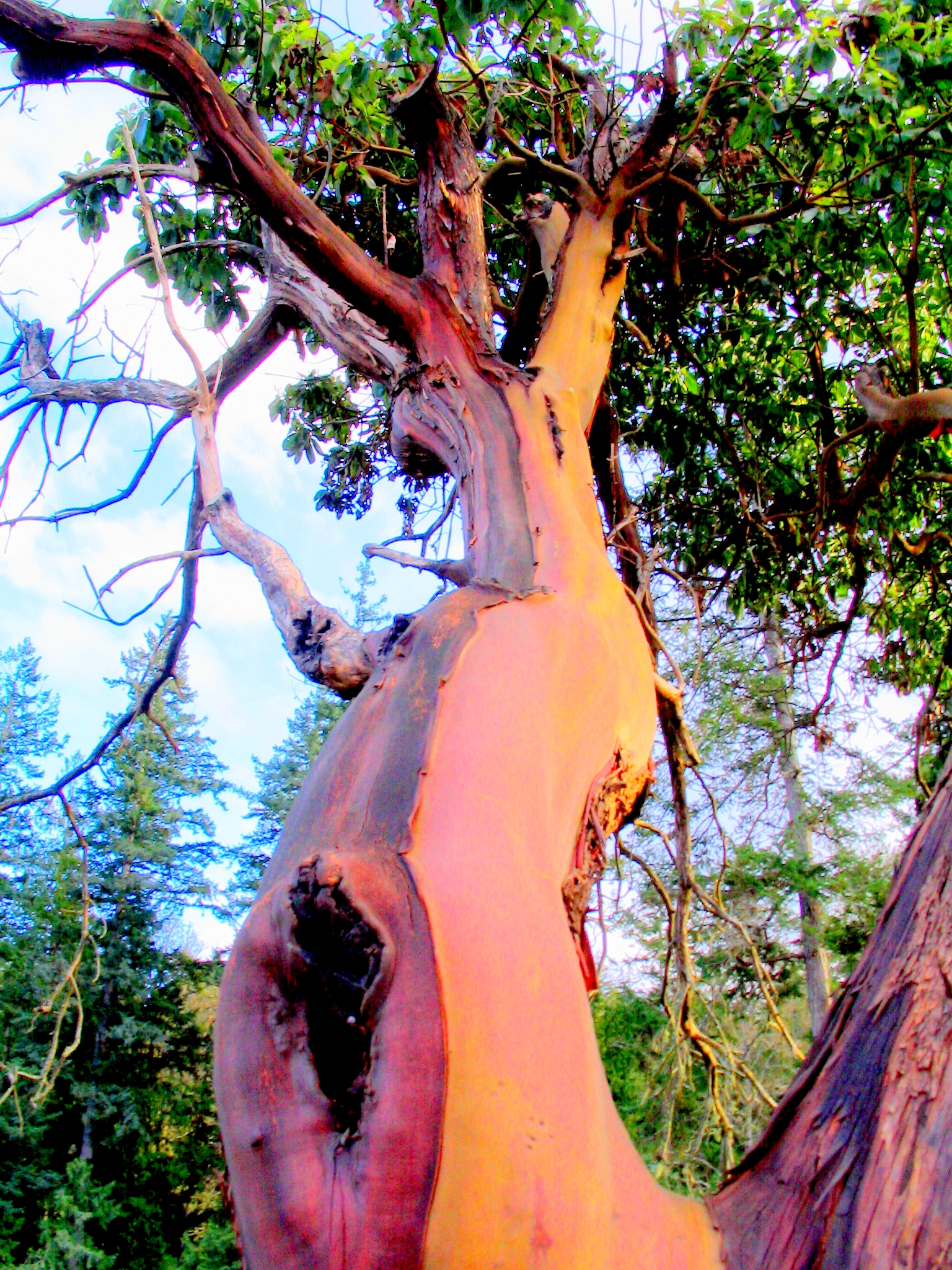 An interesting tree indigenous to the Pacific Northwest.